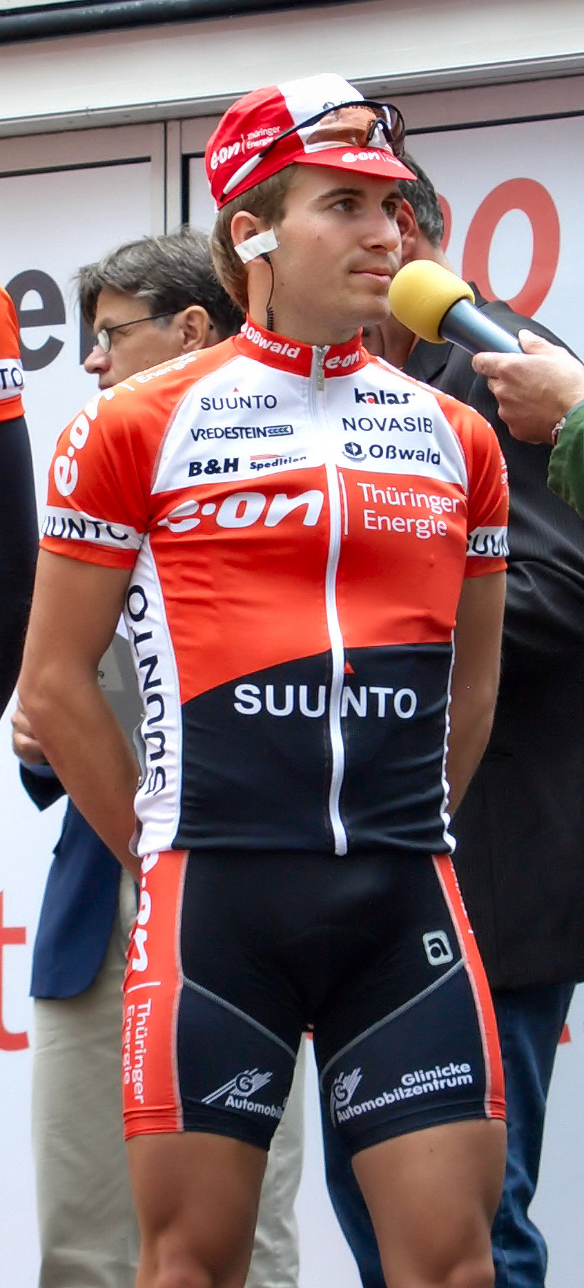 Sebastian Schwager at race in Bochum